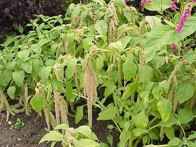 Species: Amarantus caudatus Family: Amaranthaceae Image No. 1